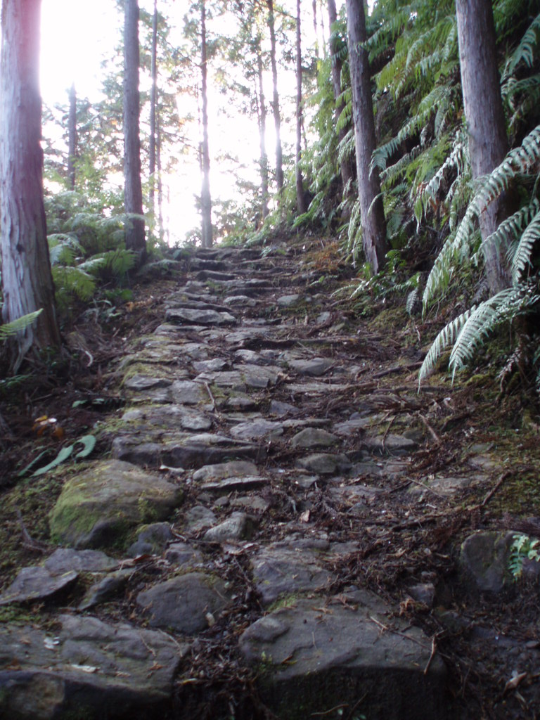 Stone-paved trail, approaching to Hatenasi pass.